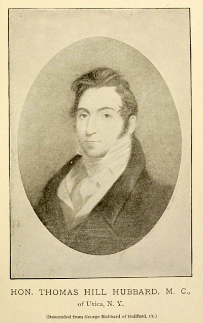 Sketched portrait of Thomas Hill Hubbard (1781 - 1857) of Utica, New York.